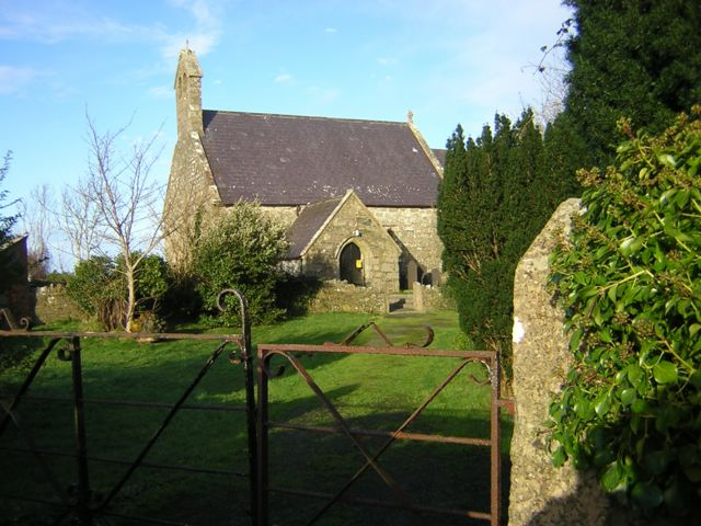 St. Credifael's Church, Penmynydd, Anglesey. A view of St. Credifael's Church, Penmynydd, Anglesey.